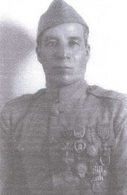 Image of World War I hero Marcelino Serna from